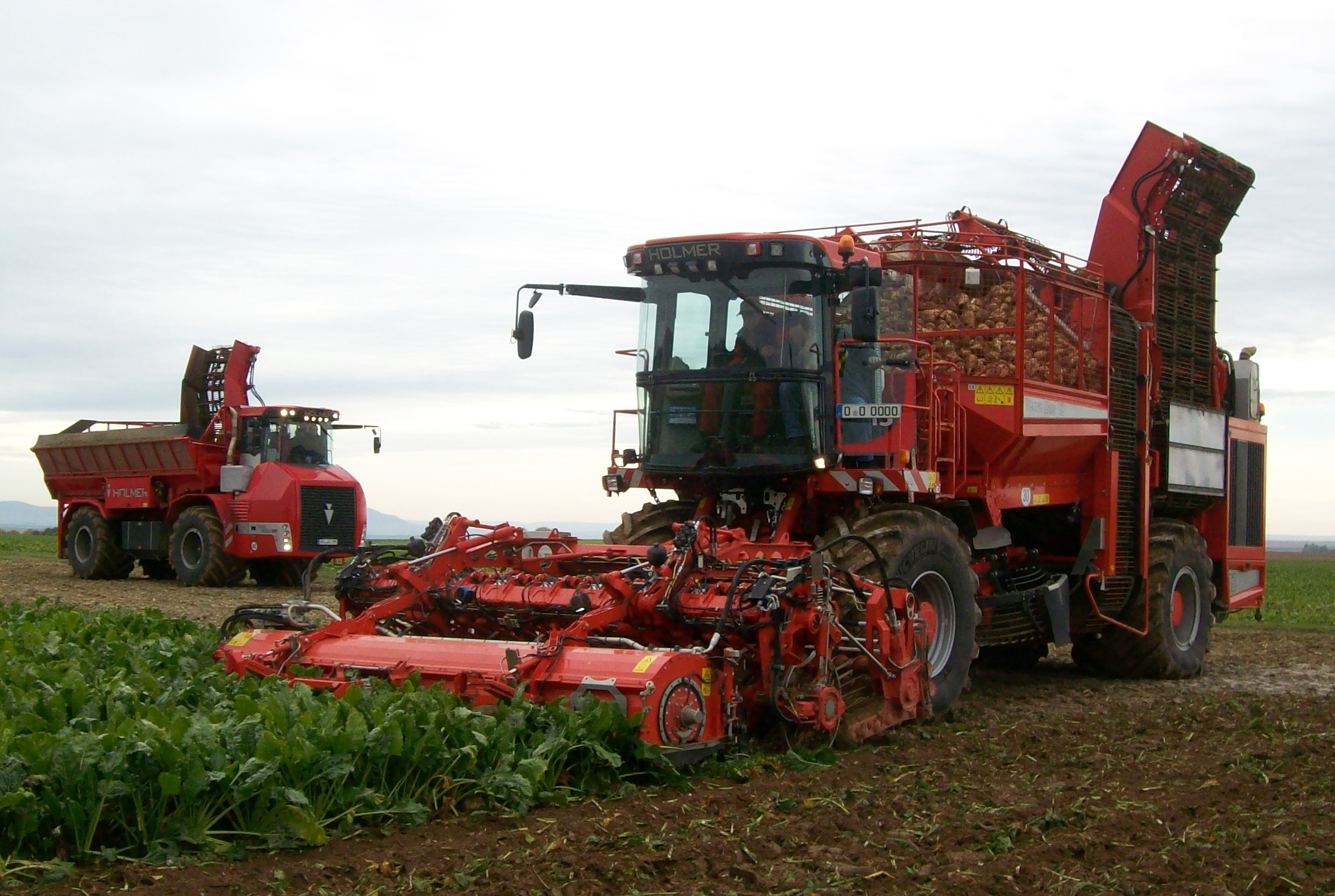 Holmer; Foreground: 9-row beet harvester Terra Dos T3; Background: Vehicle System Terra Variant with beet tank